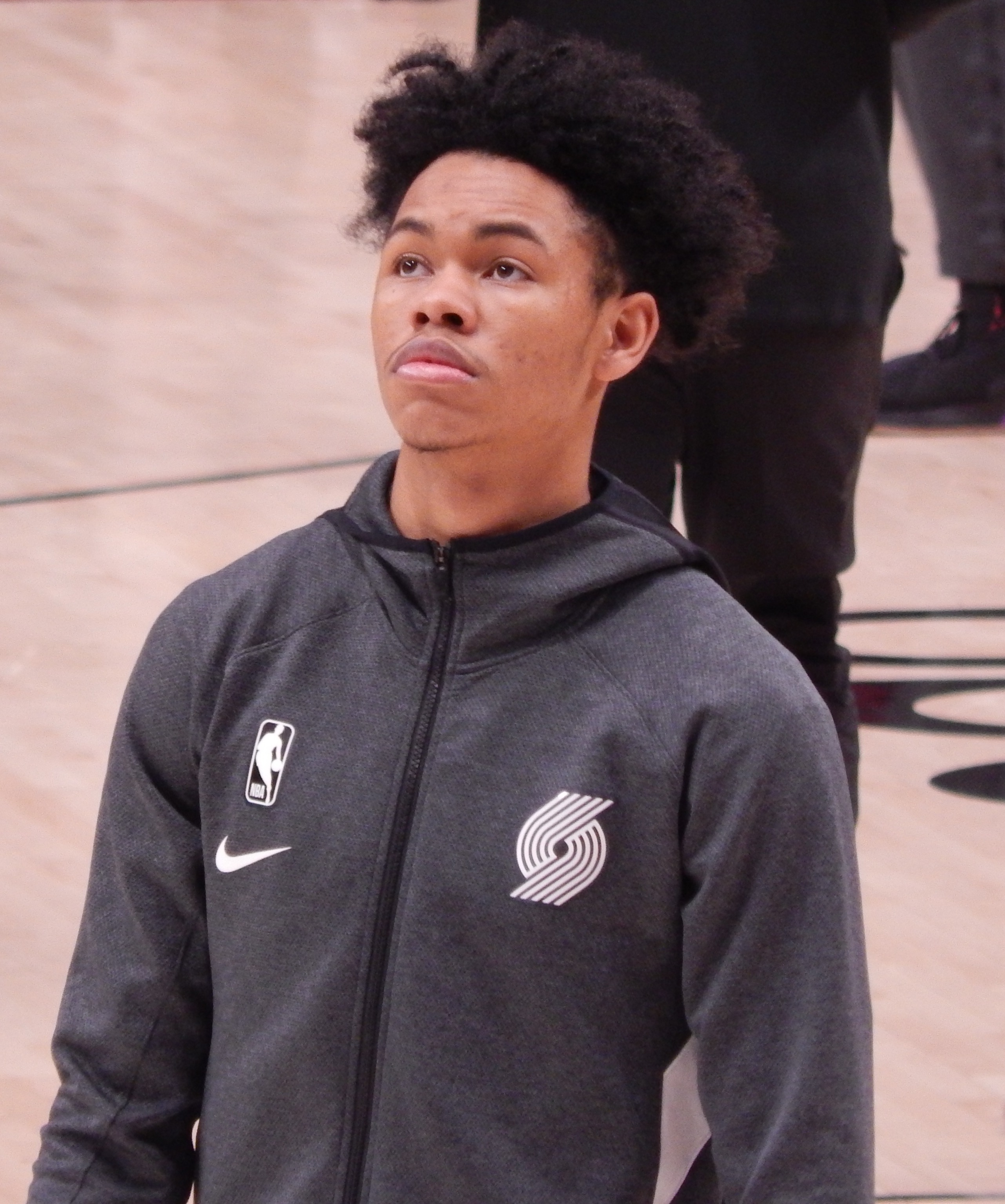 Anfernee Simons #1 of the Portland Trail Blazers warms up before the start of the game against the Sacramento Kings on December 4, 2019 at the Moda Center Arena in Portland, Oregon.